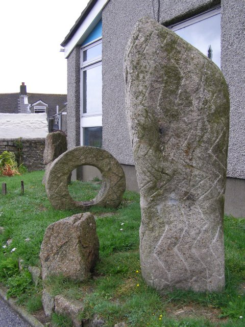 Stone sculptures outside St Just library. The three stones on the left are some kind of artistic tribute to the ancient Men an Tol stones in nearby square SW4234. The taller stone on the right is another modern sculpture featuring a zig-zag pattern - it probably refers to a local menhir. Both sculptures stand in front of the pebbledashed St Just library on Market Street, opposite the car park and bus station. The sculptor is Rory Te' Tigo - his work can be seen around the St Just area, including a series of granite sculptures alongside the A30 between Sennen and Lands End.